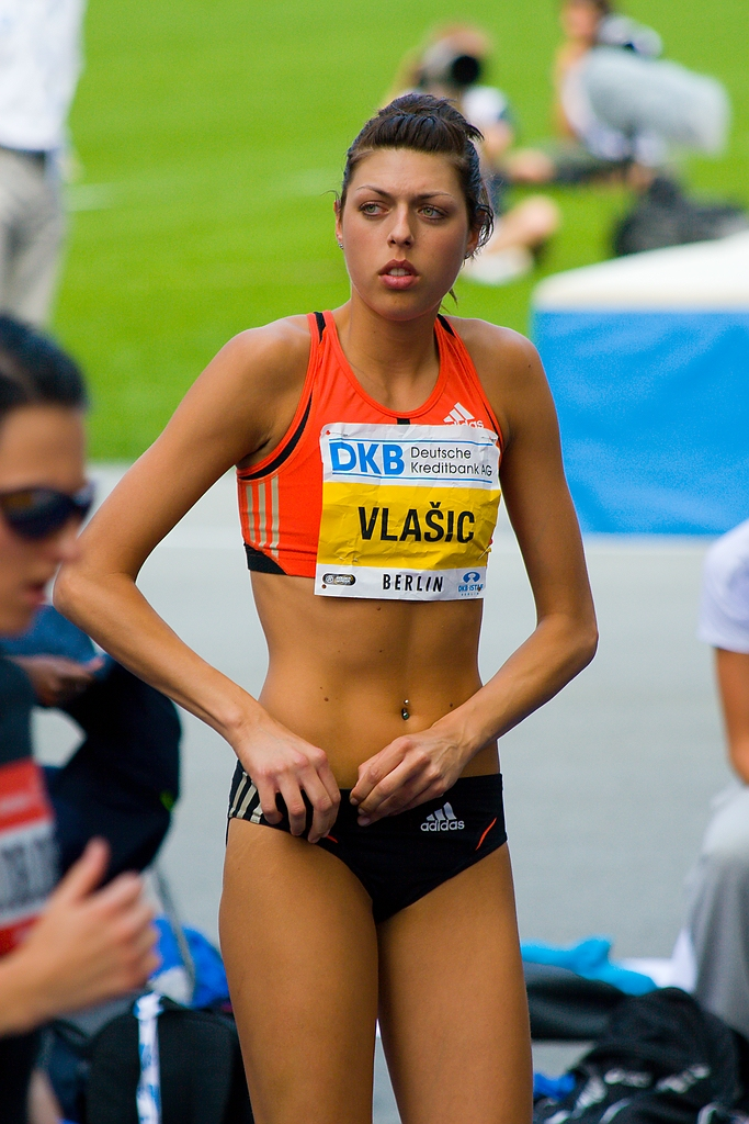 Croatian high jumper Blanka Vlašić at the 2008 Internationales Stadionfest